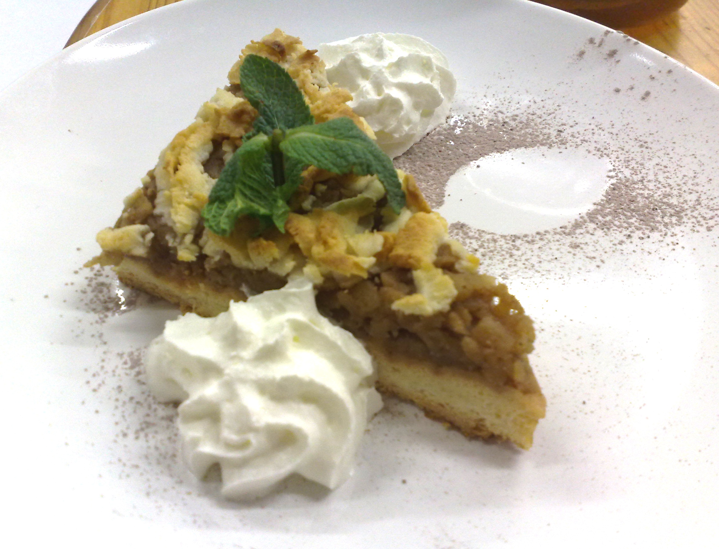 Polish cafe, London.